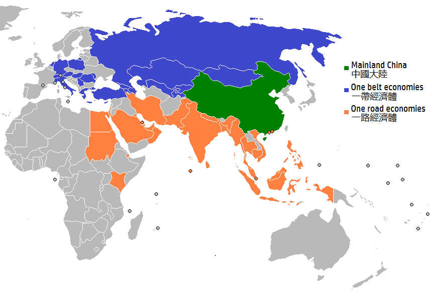 One Belt, One Road